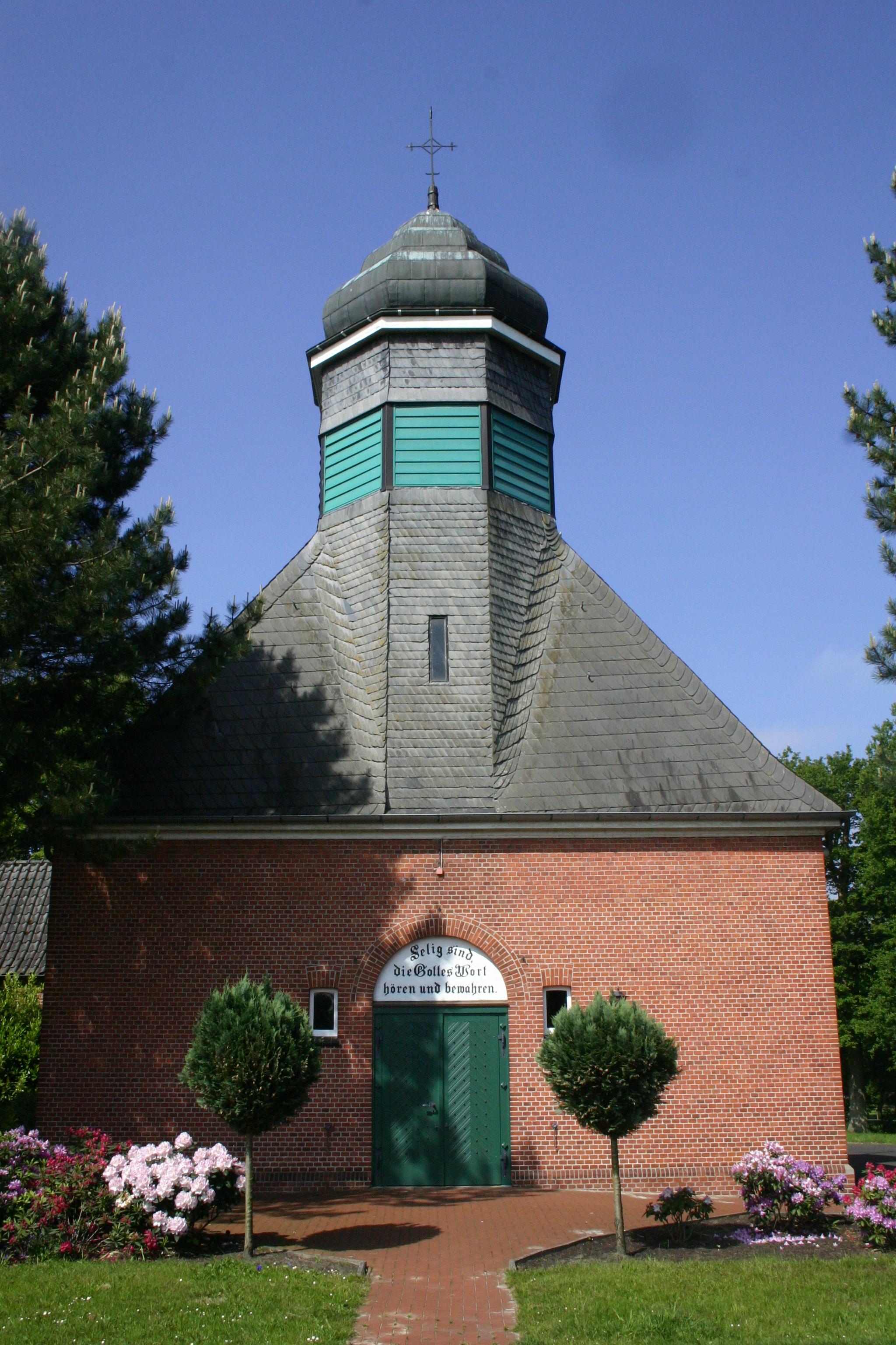 Historic church in Ihrenerfeld, district of Leer, East Frisia, Germany